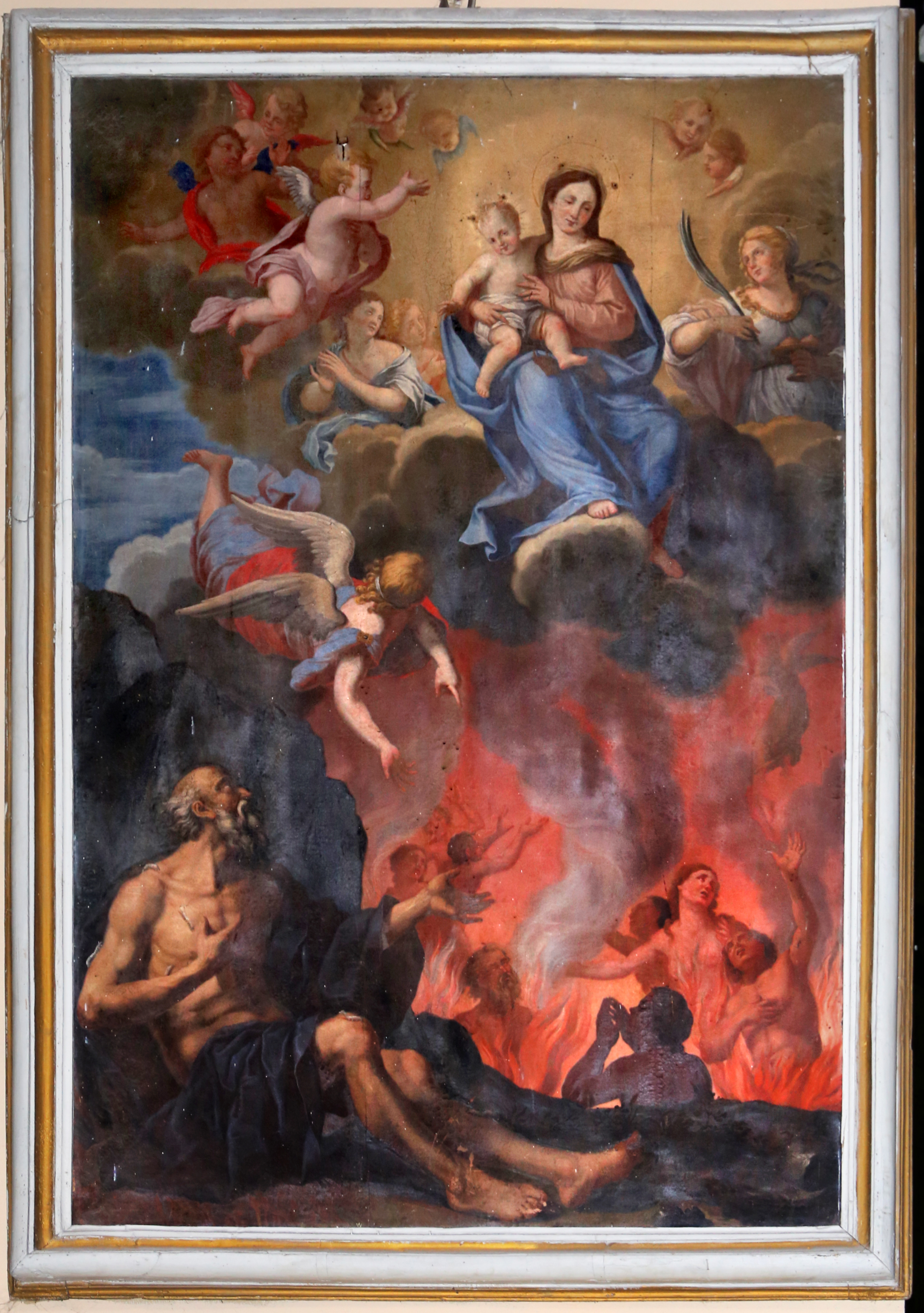 San Bartolomeo (Collodi)